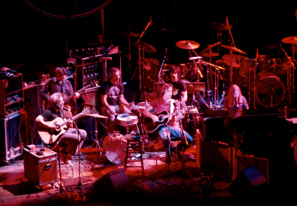 Grateful Dead at the Warfield Theatre in San Francisco, October 9, 1980.